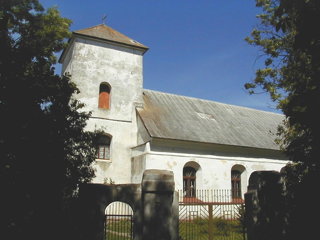 Grobiņa church